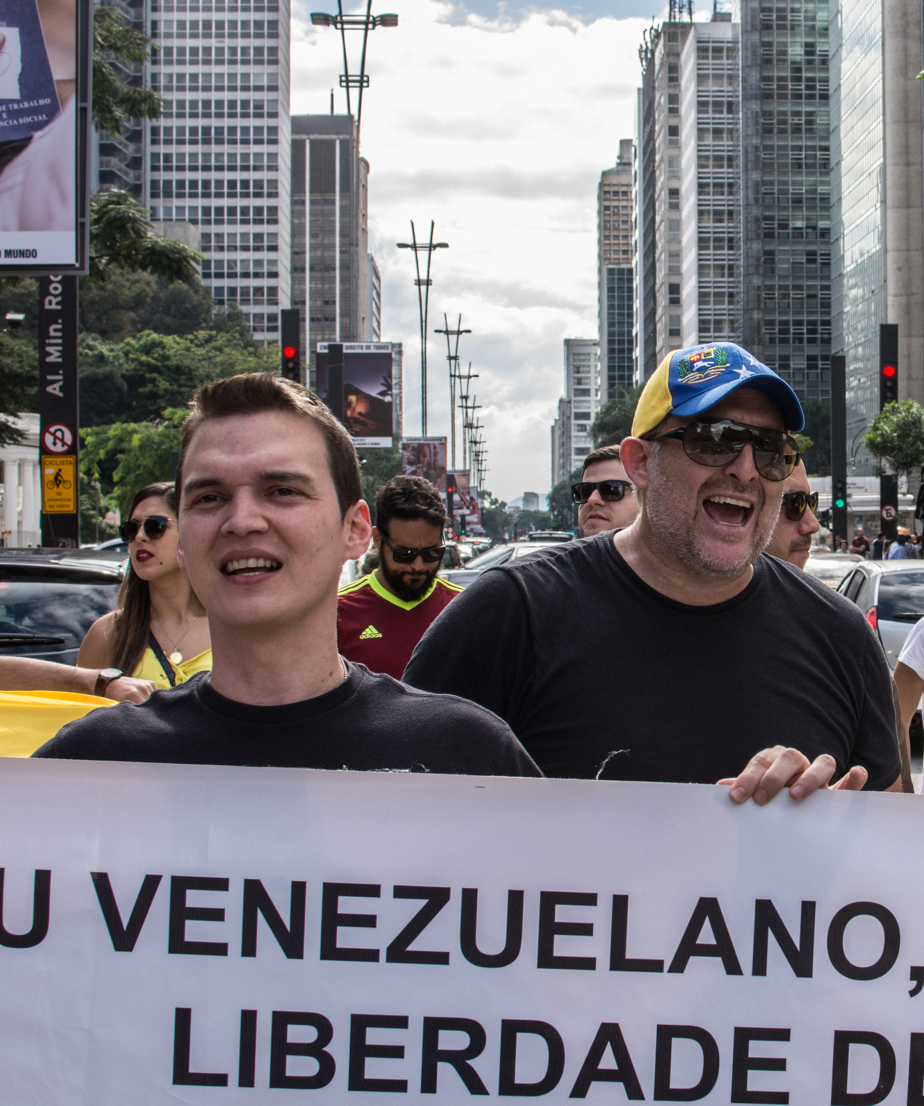 Protests opposing Bolivarian Revolution in São Paulo, Brazil